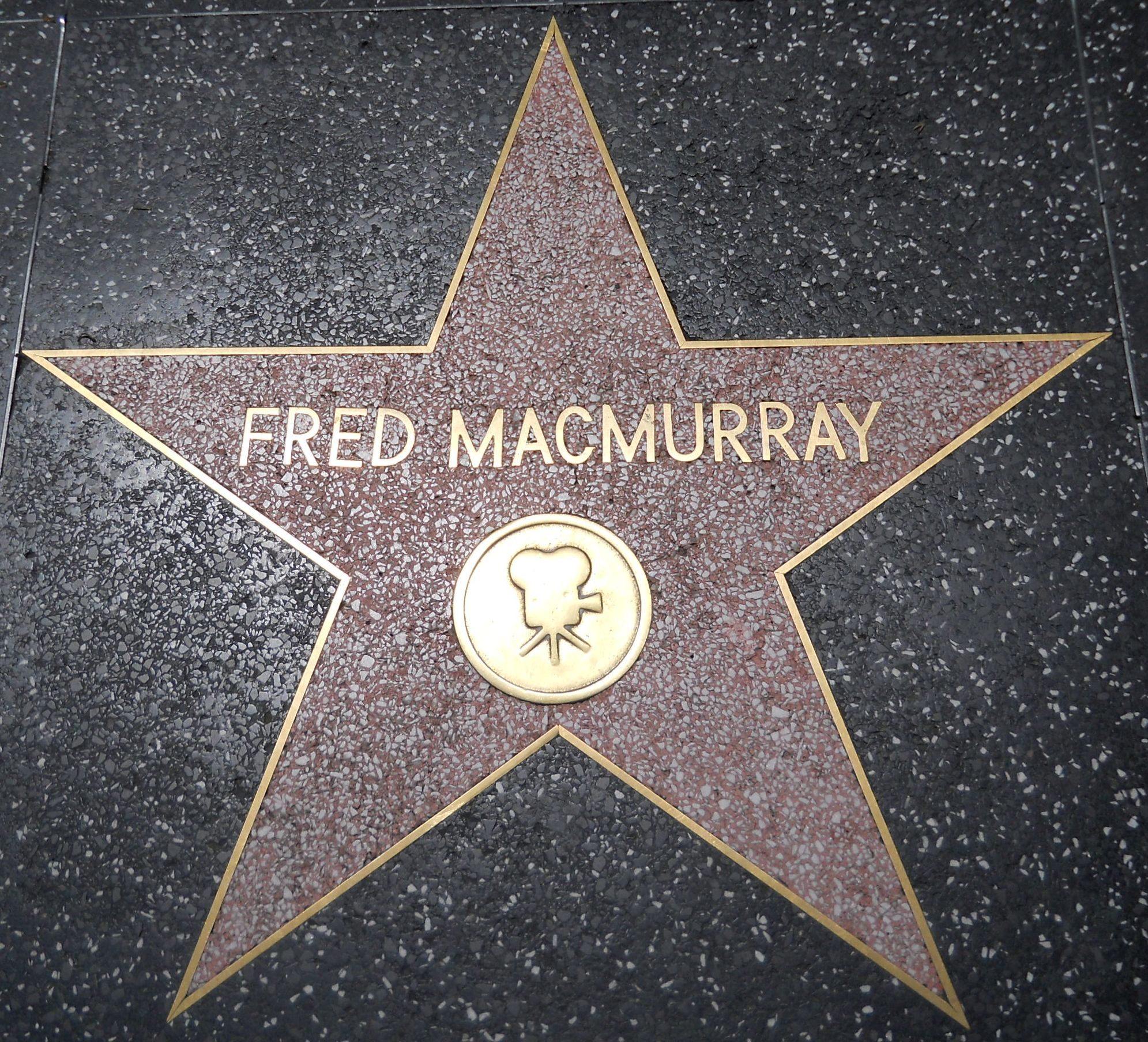 Fred MacMurray's star on the Hollywood Walk of Fame at 6421 Hollywood Blvd.